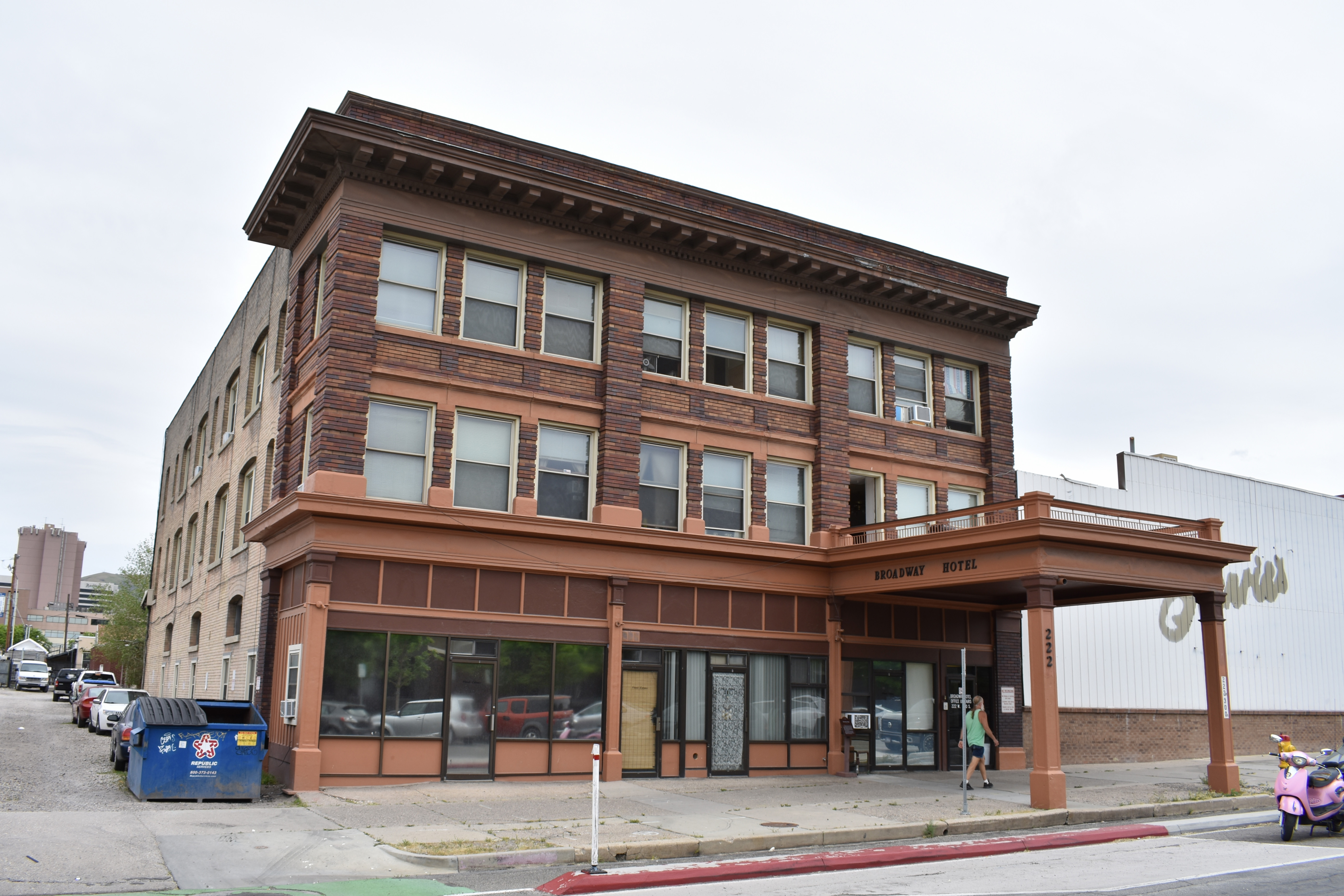 The Broadway Hotel (1912) in Salt Lake City is listed on the National Register of Historic Places.